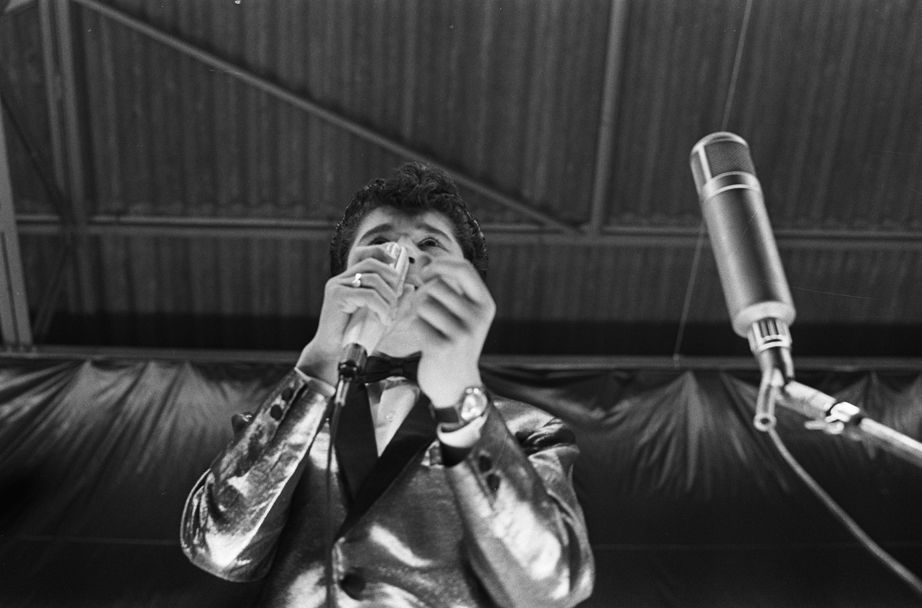 Vince Taylor performing in Blokker (the Netherlands), 23 May 1963